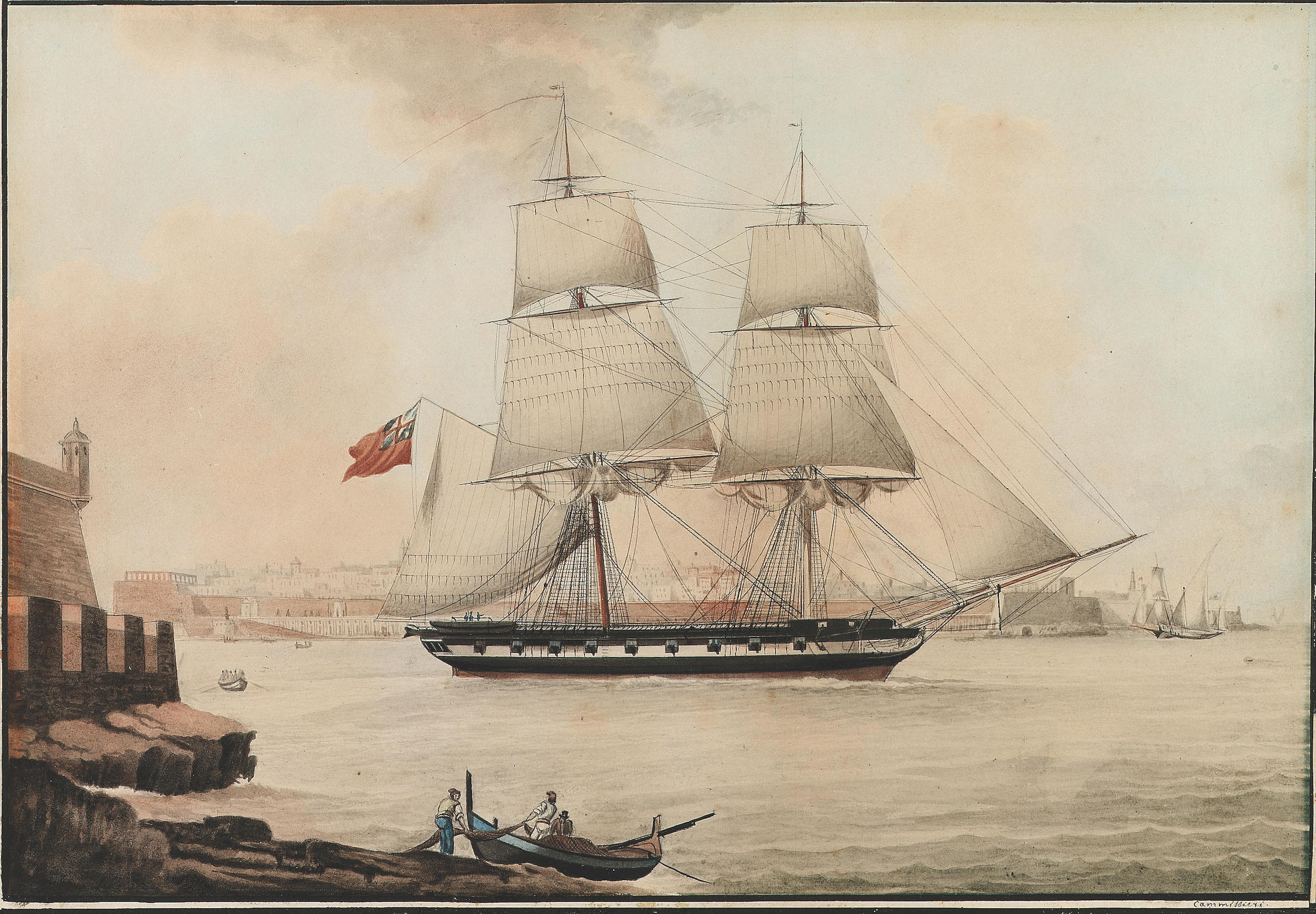 HMS "Pelican" off Ricasoli Point, leaving the Grand Harbour, Malta , 1833, 1833, by Cammillieri Medium: Watercolour Size: 34.3 x 47.6 cm. (13.5 x 18.7 in.)